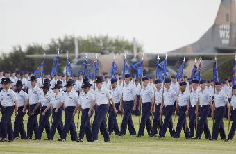 LACKLAND AIR FORCE BASE, Texas -- Airmen participate in a rite of passage shared by all enlisted Airmen -- the Basic Military Training graduation parade. The parade of 15 squadrons marked the end of the six-week training period for about 750 of the Air Force's newest Airmen. (U.S. Air Force photo by Master Sgt. Ken Wright) Source: USAF